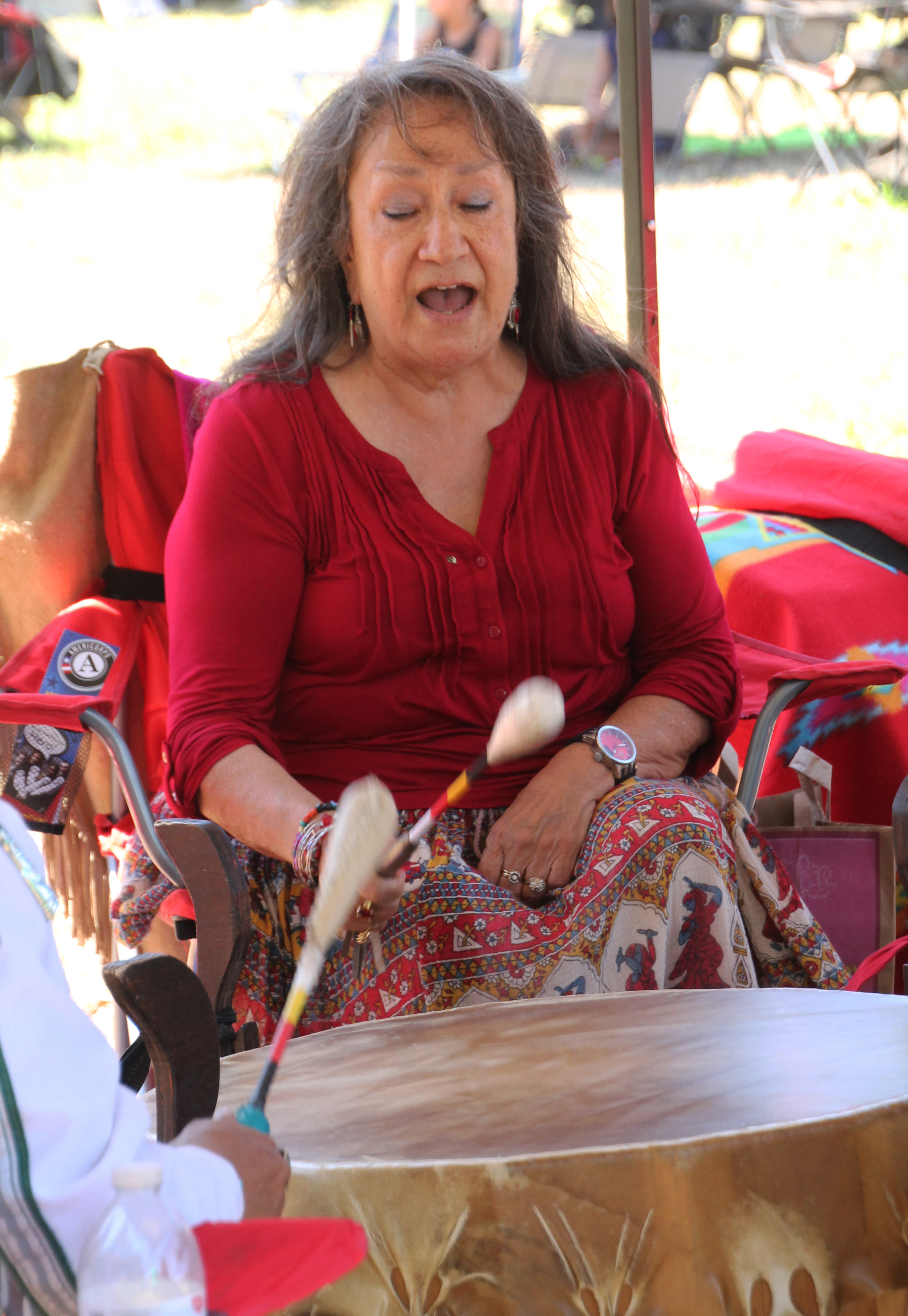 Suscol Intertribal Council 22nd Annual Pow-Wow, Yountville, California